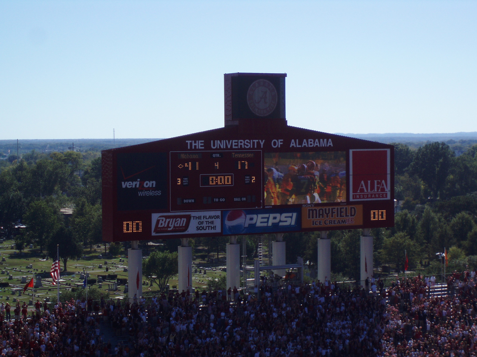 The main scoreboard (south endzone) of Bryant-Denny Stadium.